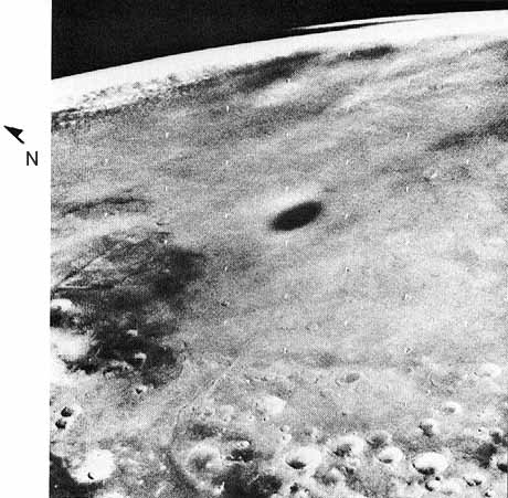 Phobos Shadow Transit over the Viking Lander 1 Site. The passage of the Phobos shadow over Viking Lander 1 was imaged simultaneously from Viking Orbiter 1 and Viking Lander 1. The time of shadow passage, as observed by the Lander, was used to locate the position of the shadow (and therefore the position of the lander) in the orbiter pictures. This picture shows the shadow of Phobos (~60 X 120 km across) in the Chryse Planitia region a few kilometers directly north of Viking Lander 1. To the left of bottom center is Maumee Valles, approximately 420 km southwest of the lander's location. [463A21]